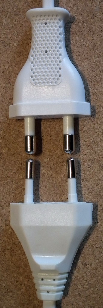 Comparison of the BS 4573 shaver plug (top) to the Europlug. Note that the BS 4573 plug has conventional straight round pins (pin diameter 5.1 mm), it is intended to fit a socket specifically designed for that plug. The Europlug (pin diameter 4 mm) has no specific socket, but is designed to be used with a range of European round pin sockets having a pin spacing of 19 mm, and usually intended to accept a pin diameter of 4.8 mm.